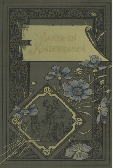 Cover of the Dutch children's song book "Nederlandsche baker- en kinderrijmen", gathered together by J. van Vloten (4th print, 1894).